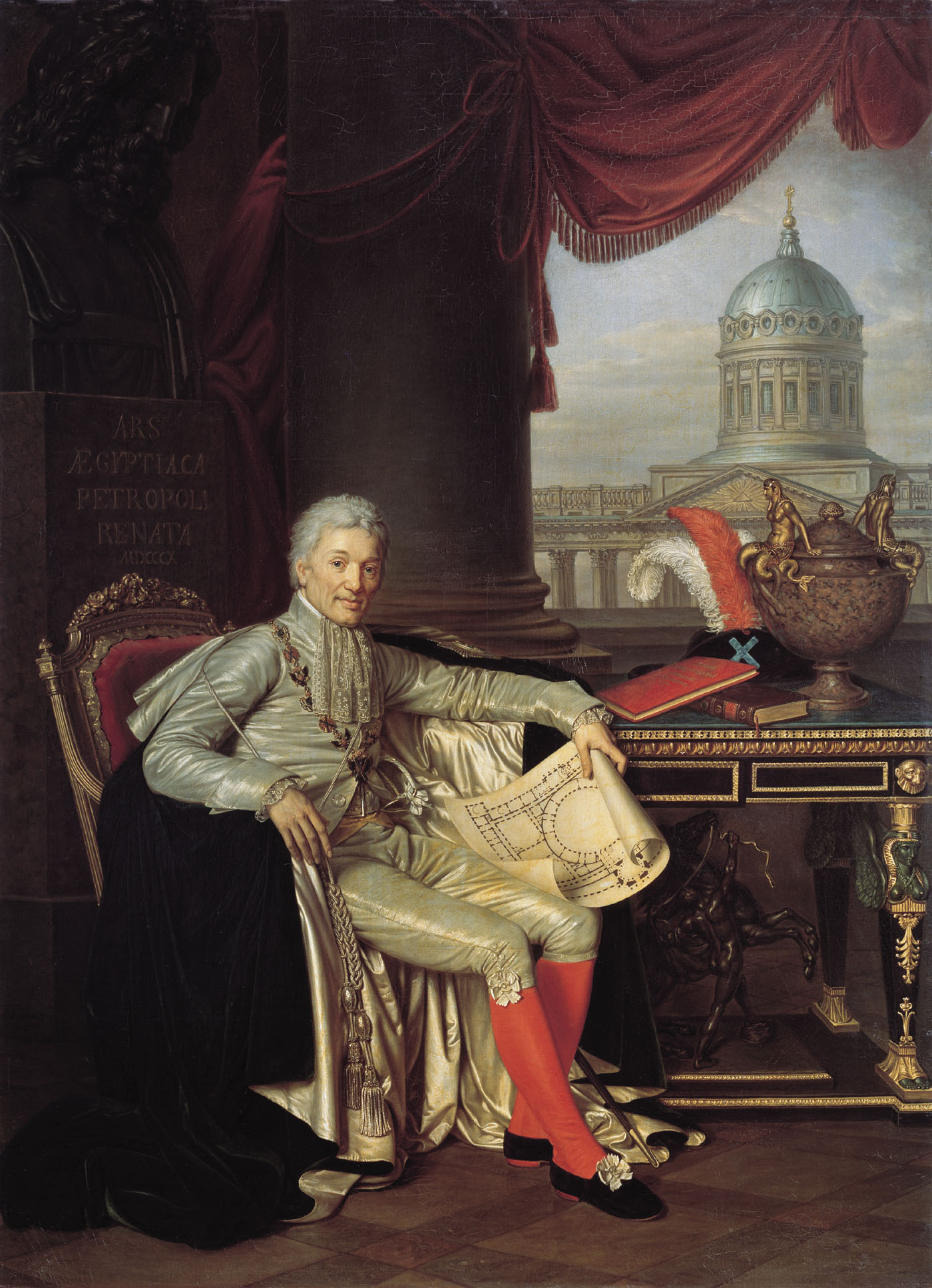 Portrait of A. S. Stroganov (1733—1811)